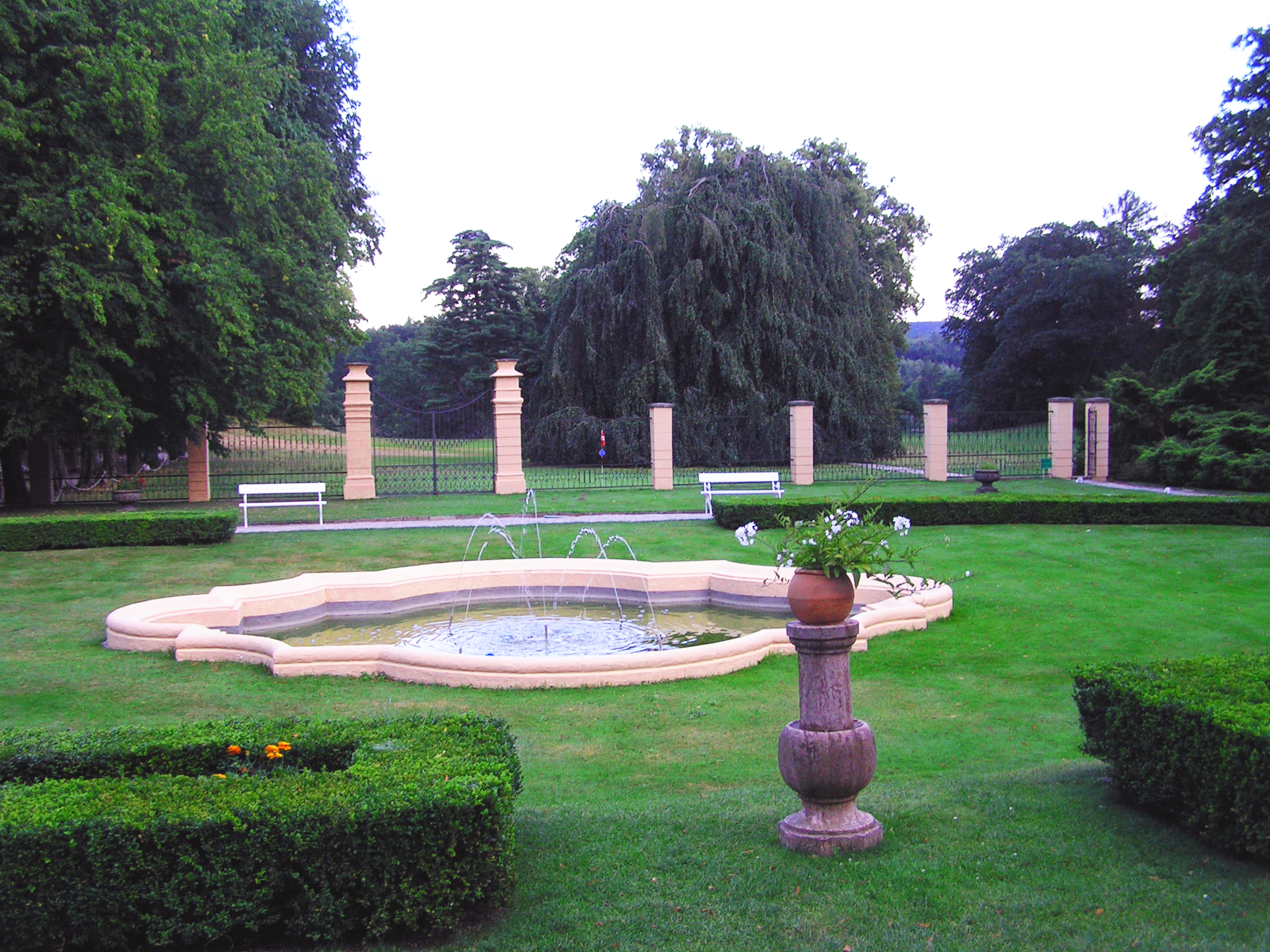 Stirjn